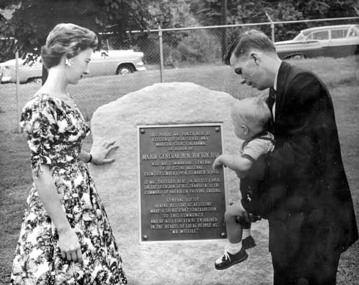 Plaque dedicated to U.S. Army Major Genaral Holger N. Toftoy.